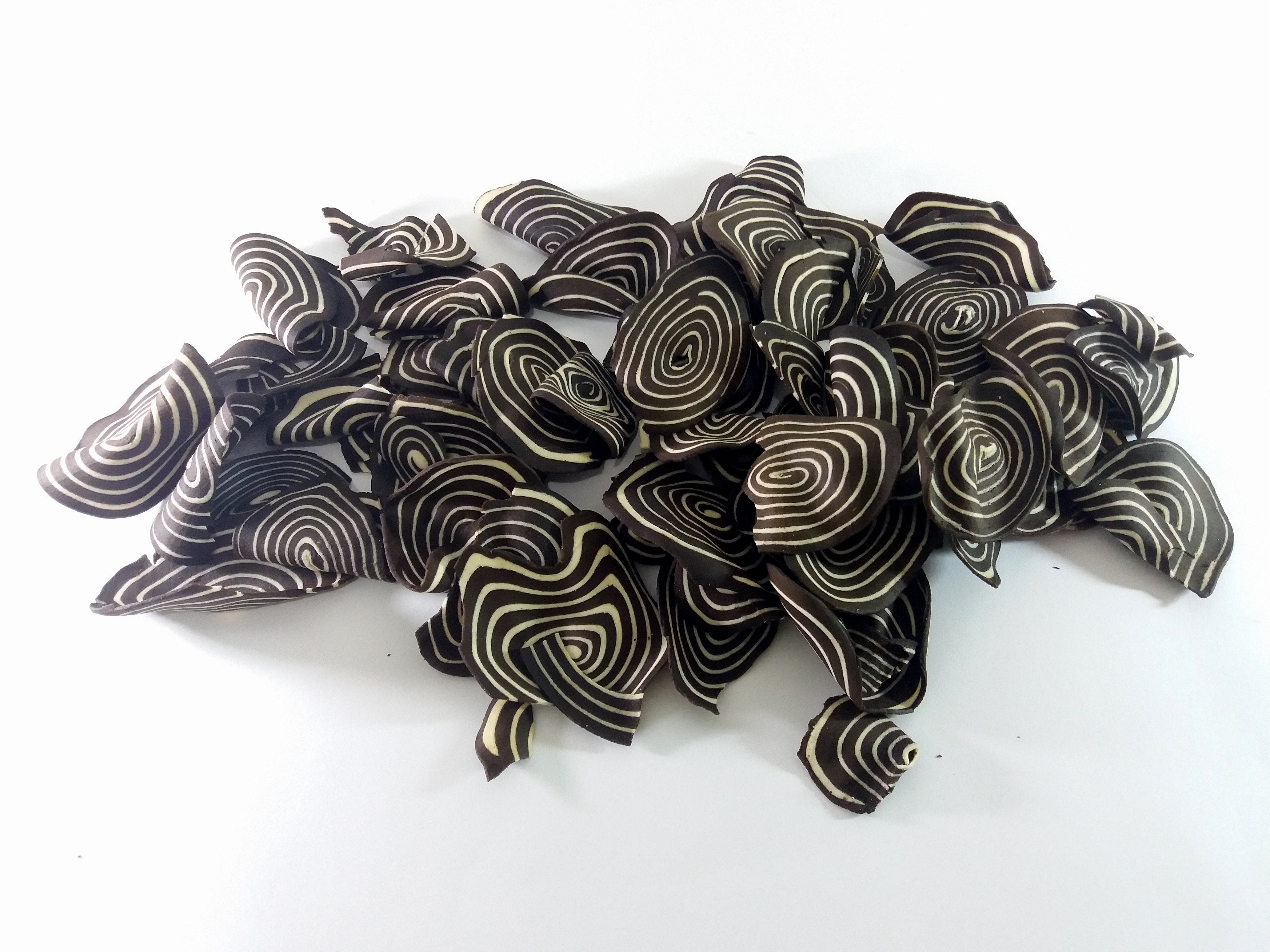 Kuping gajah is traditional chips from Indonesia. This chip is made from flour and serve in special occasion, like Eid Al-Fitr.